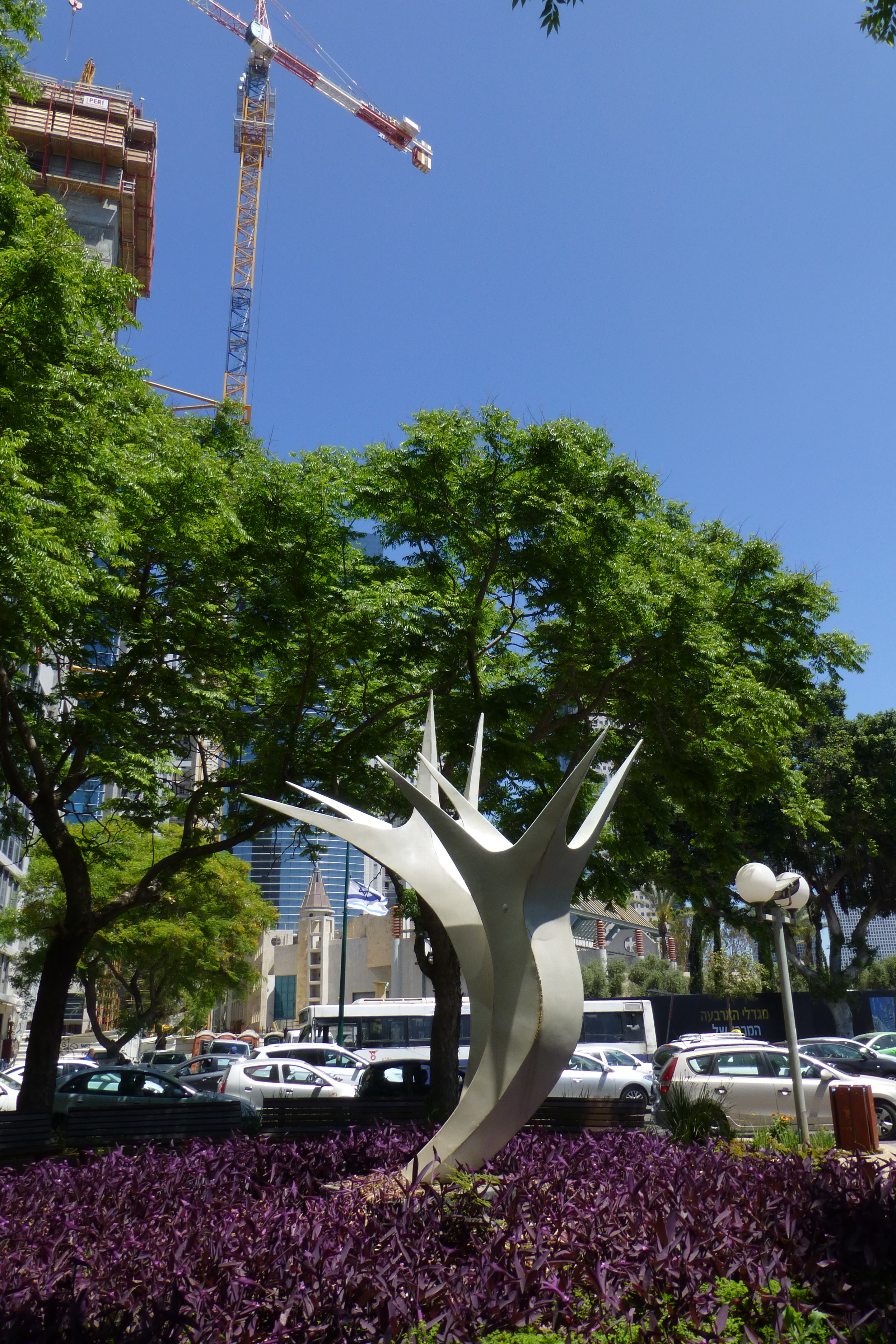 Begin Road, Tel Aviv-Yafo